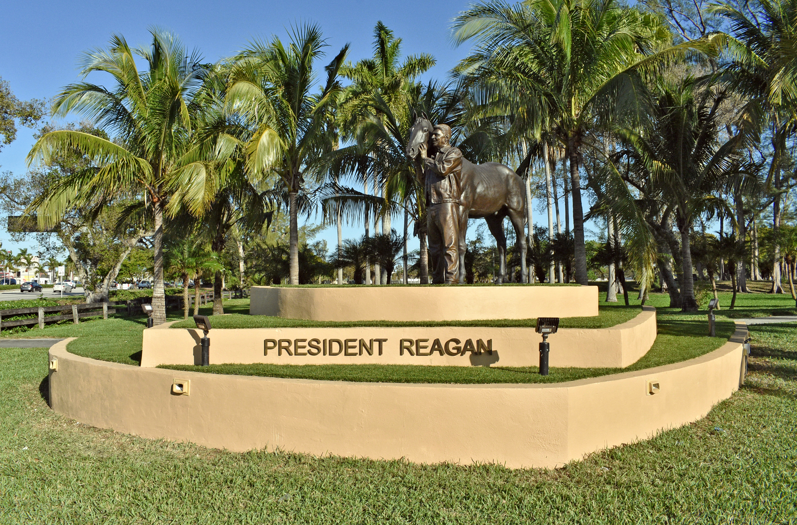 Ronald Reagan Equestrian Monument, Miami, Florida. This sculpture is a product of the Miami-Dade County, Art in Public Places program. Unveiled in April 2018, at Tropical Park, this monument is an important public artwork by artist Carlos Enrique Prado.